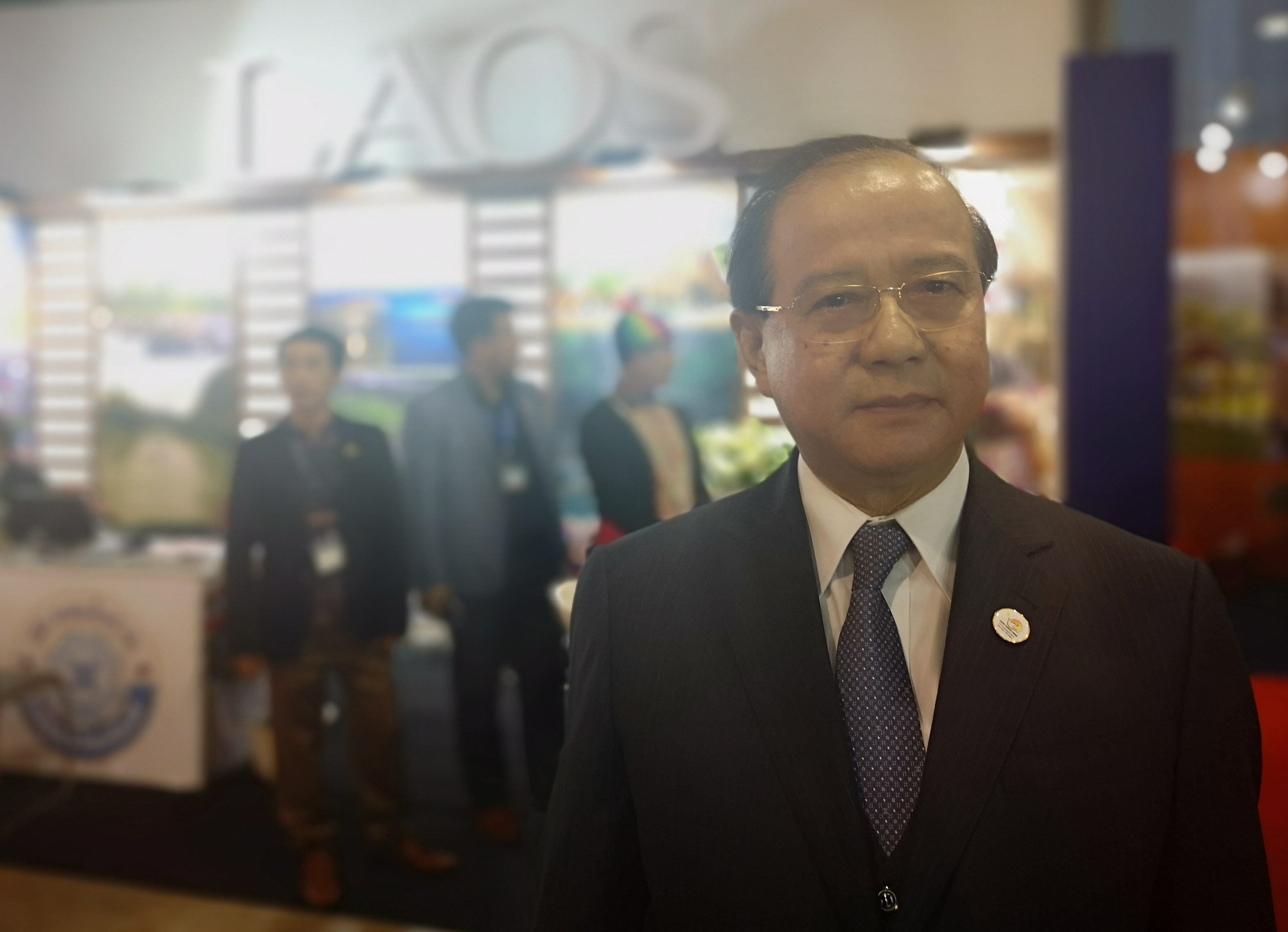 Bosengkham Vongdara, Minister of Information, Culture and Tourism of Laos at the ASEAN Tourism Forum 2019 in Ha Long Bay, Viet Nam; organised by TTG Events, Singapore